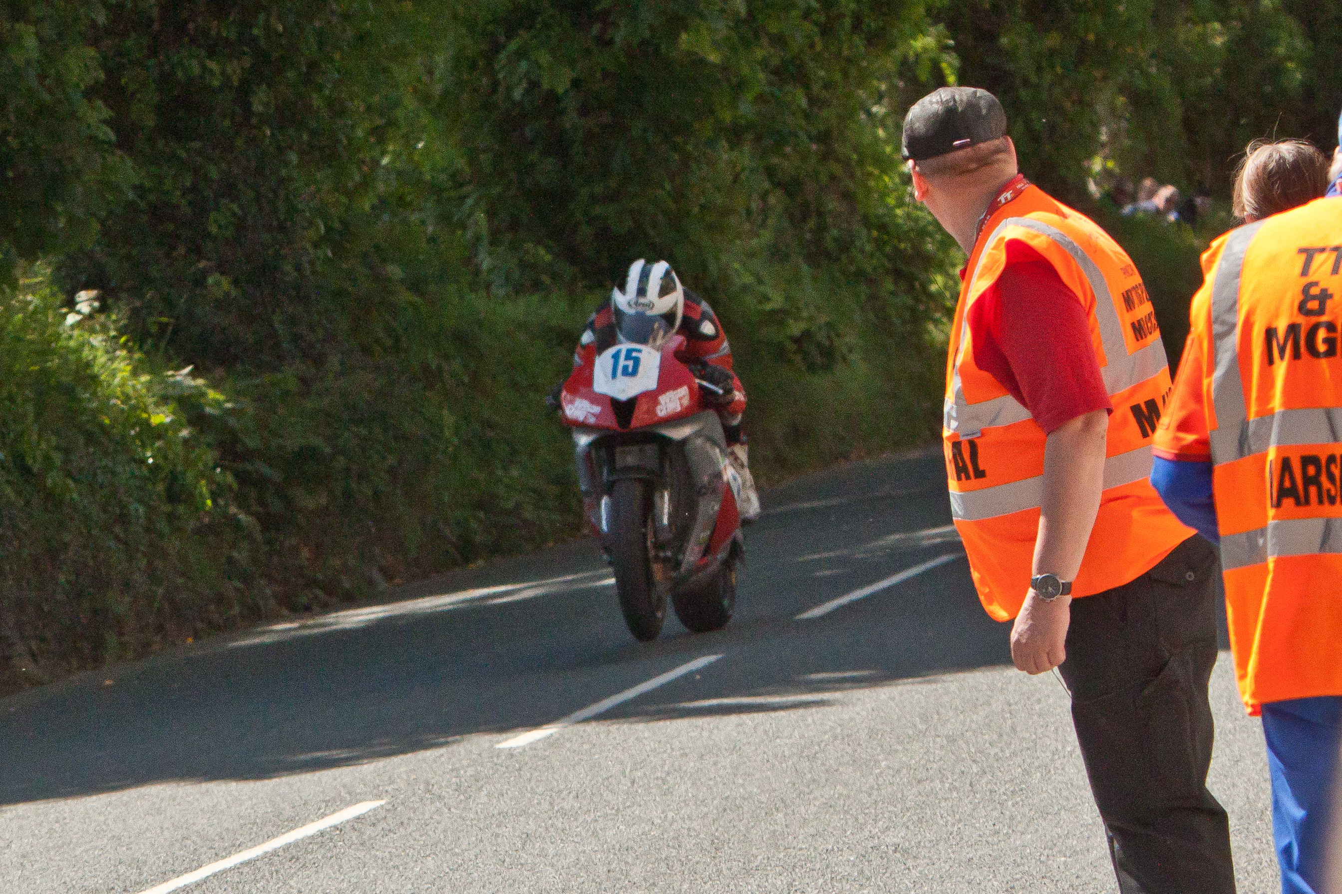 William Dunlop on a Supersport (600cc) machine in 2012 at the Sulby Straight, the fastest point on the Isle of Man TT course